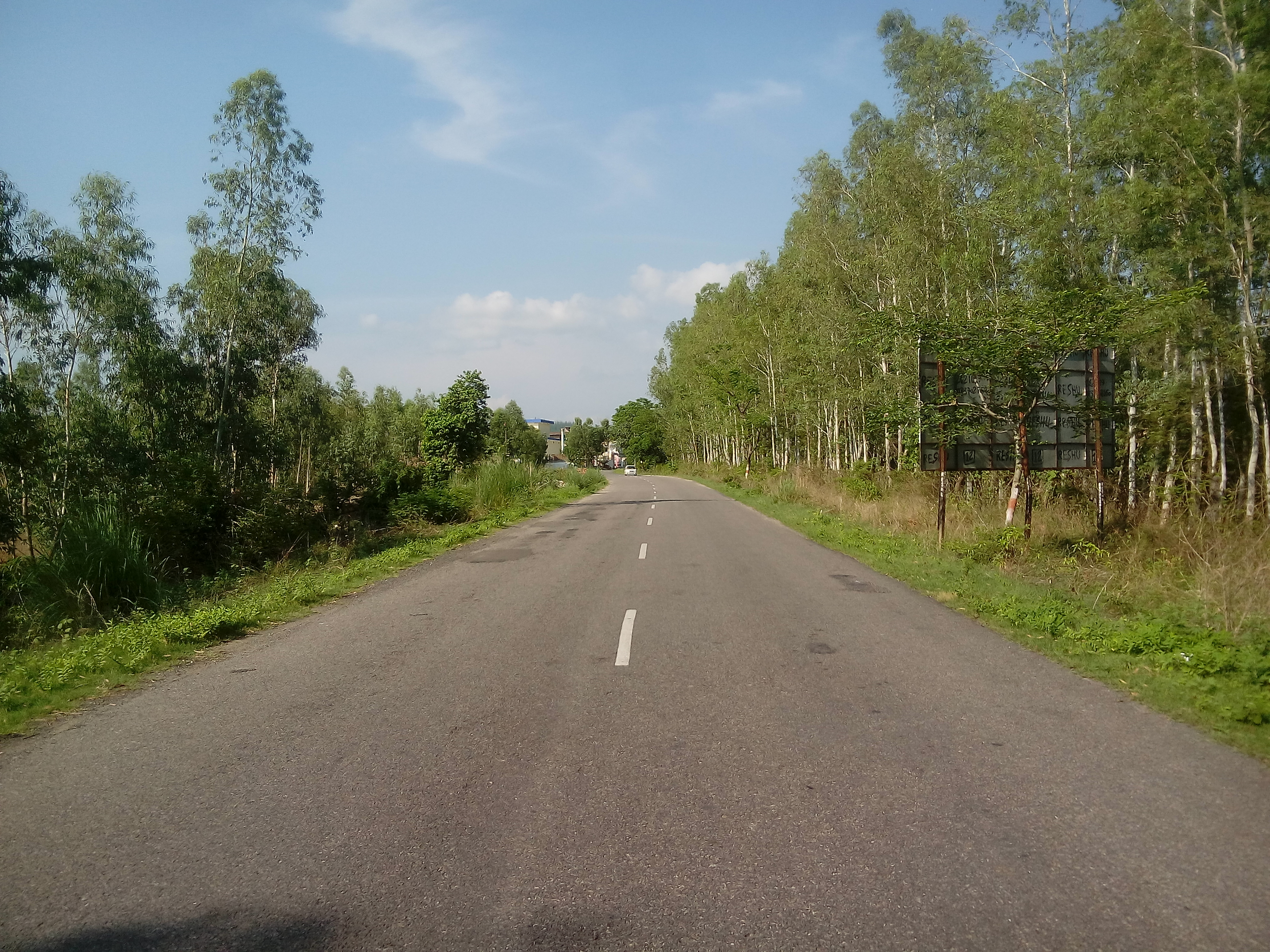 Amazing